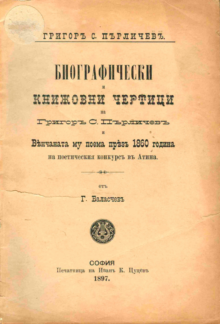 Georgi Balaschev Parlichev Biography